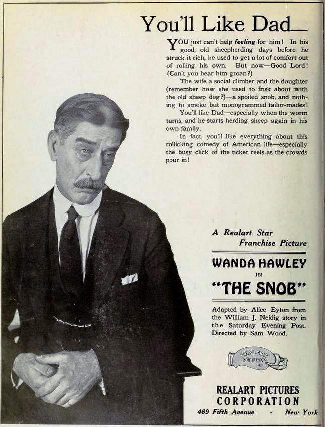 Advertisement for the American film The Snob (1921) with Edwin Stevens, inside front cover of the February 6, 1921 Film Daily.